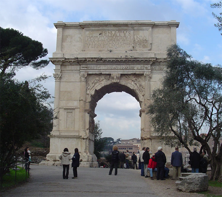 Arch of Titus, Rome, Arch, Titus, Roman Emperor